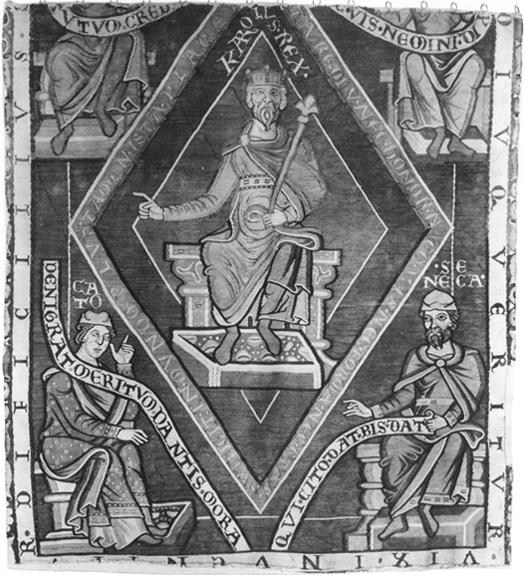 Charlemagne surrounded by philosophers. tapestry. Halberstadt (Saxe-Anhalt), cathedral treasury.